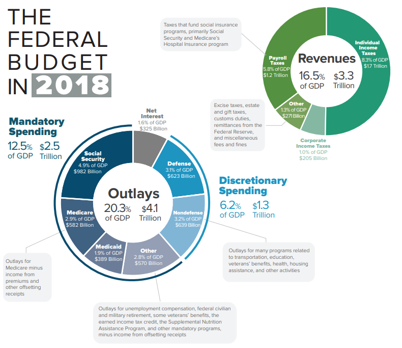 The revenues and spending in the 2018 United States federal budget, broken down by category and type.